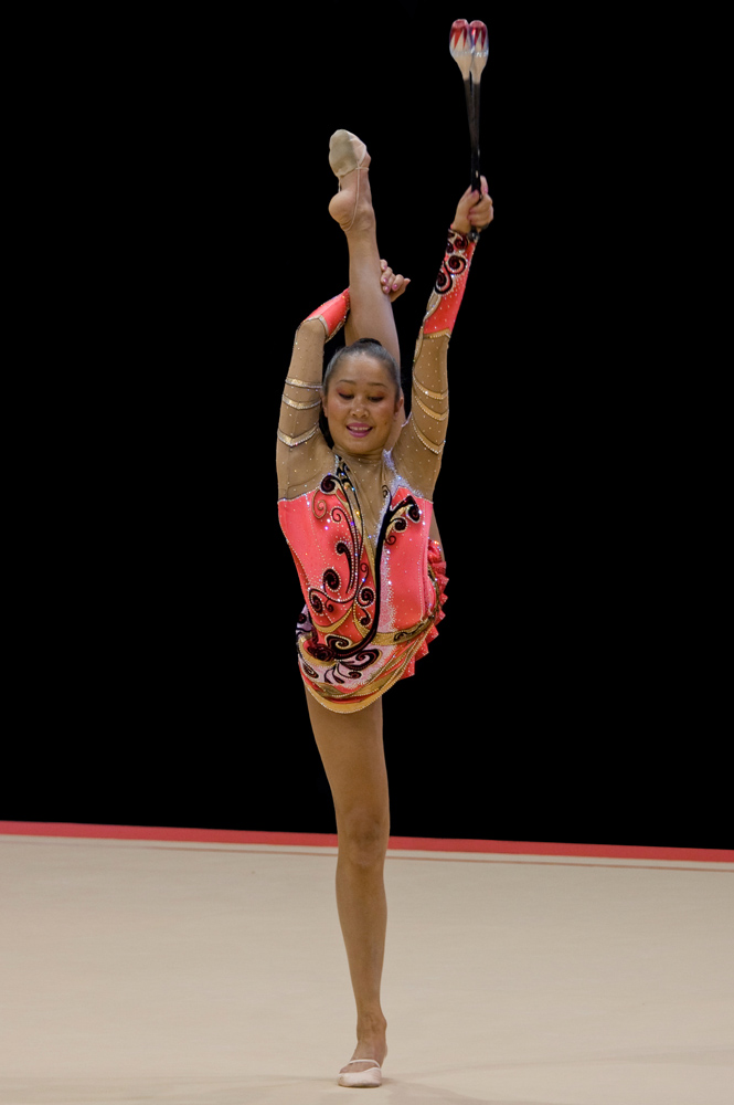 VII Final World Cup in Benidorm (SPAIN)